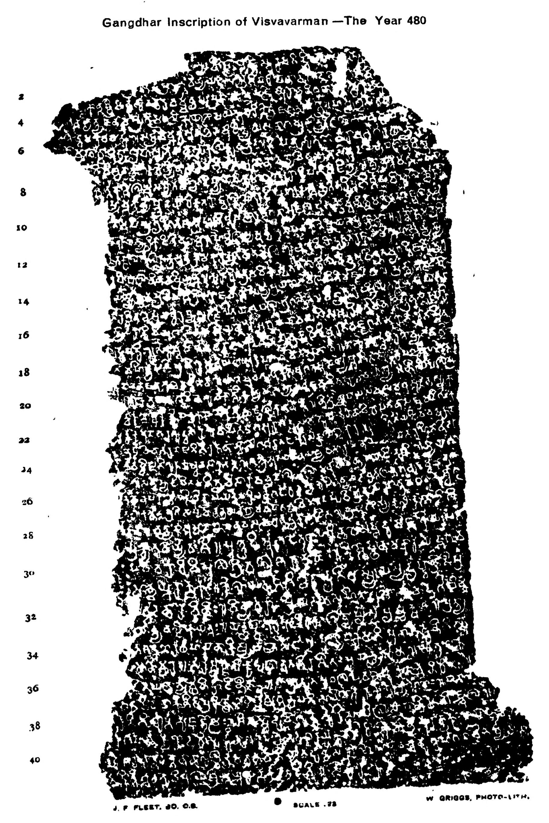 Gangdhar inscription of Visvadarman